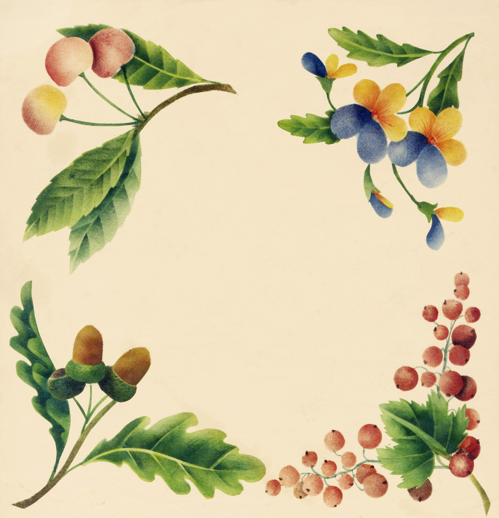 Painting by Kaspar Hauser